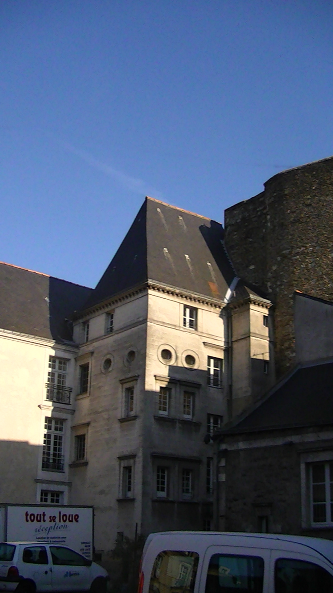 One of the buildings (hôtel de Monti de Rezé) of the Hôtel de Ville, Nantes, on Rue de Strasbourg (seen from Rue de la Commune)